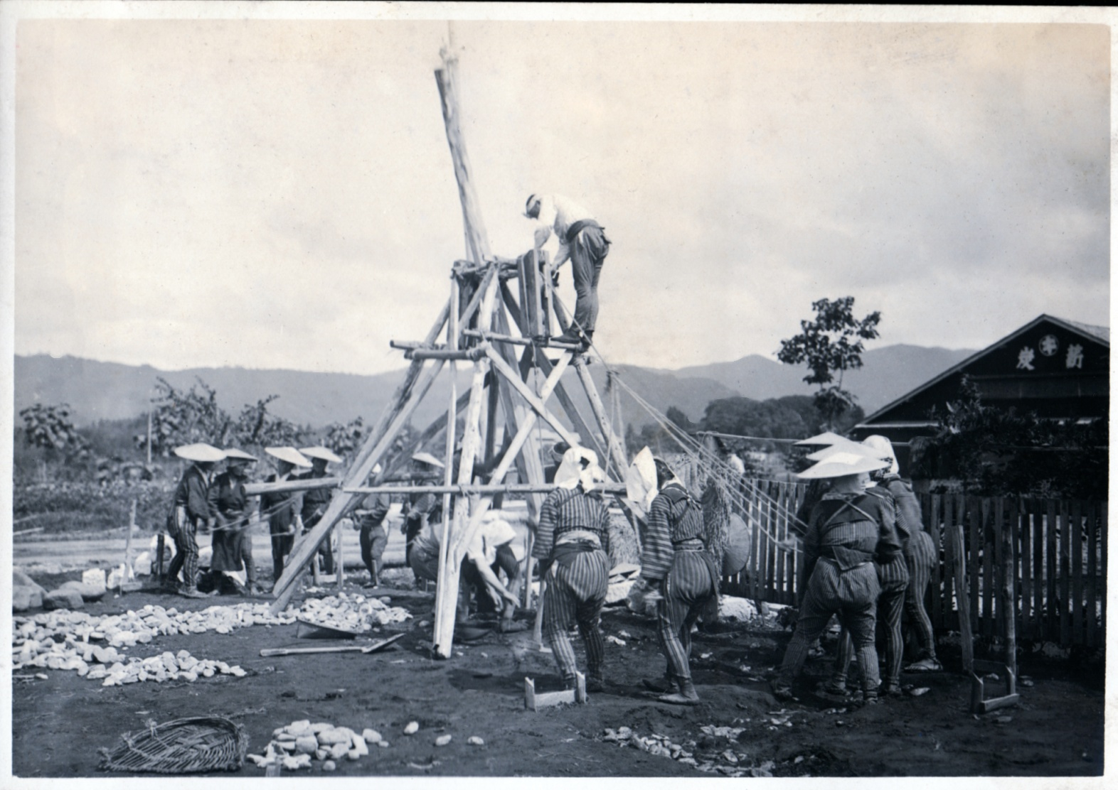 My spouse's uncle Elstner Hilton took this photo in Japan between 1914 and 1918.